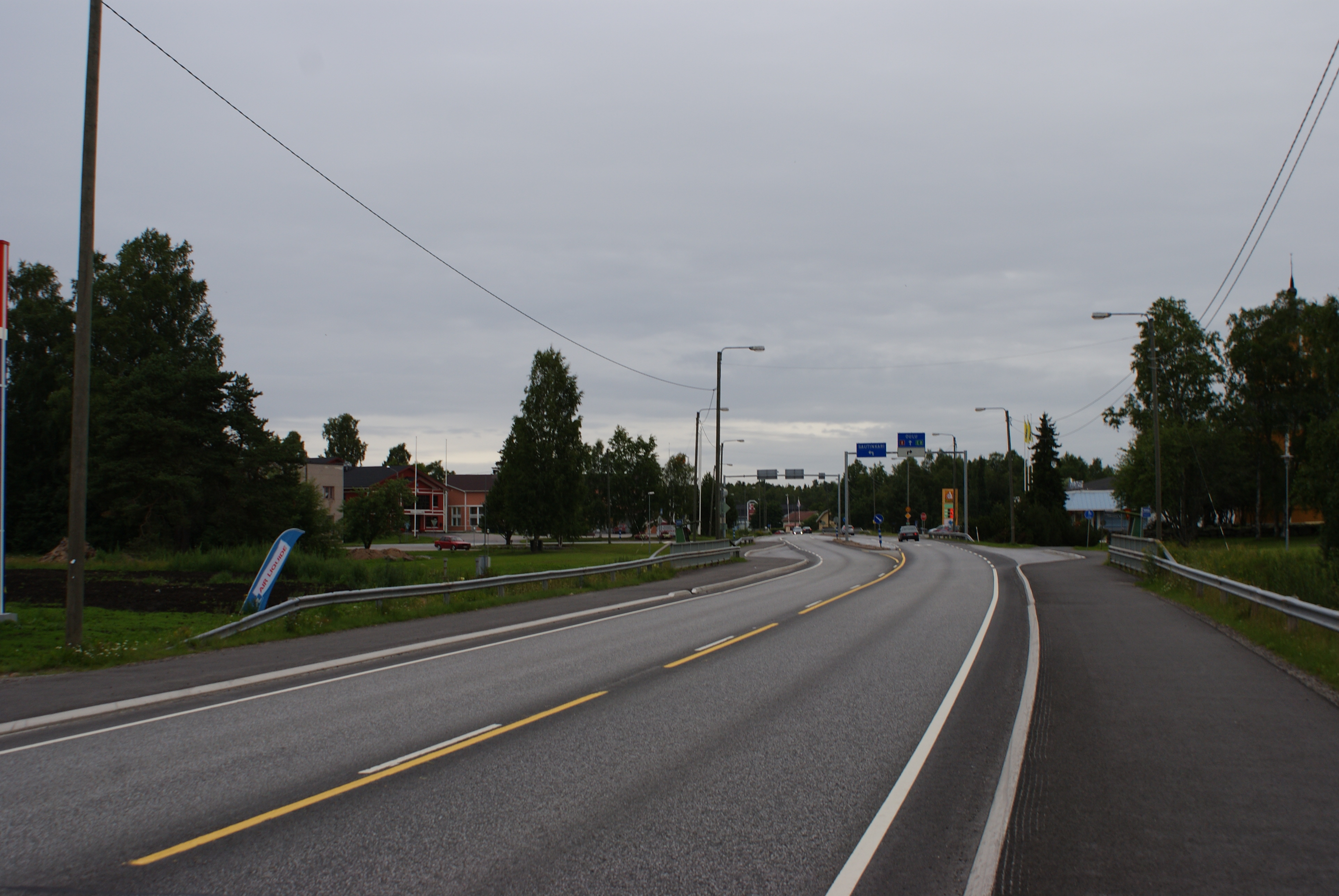 Main road 8 (E8) in Himanka, Kalajoki, Finland.